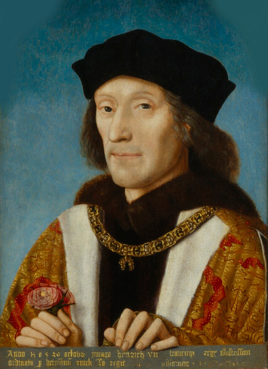 arched topText from NPG catalogue: "This impressive portrait is the earliest painting in the National Portrait Gallery's collection. The inscription records that the portrait was painted on 29 October 1505 by order of Herman Rinck, an agent for the Holy Roman Emperor, Maximilian I. The portrait was probably painted as part of an unsuccessful marriage proposal, as Henry hoped to marry Maximillian's daughter Margaret of Savoy as his second wife".